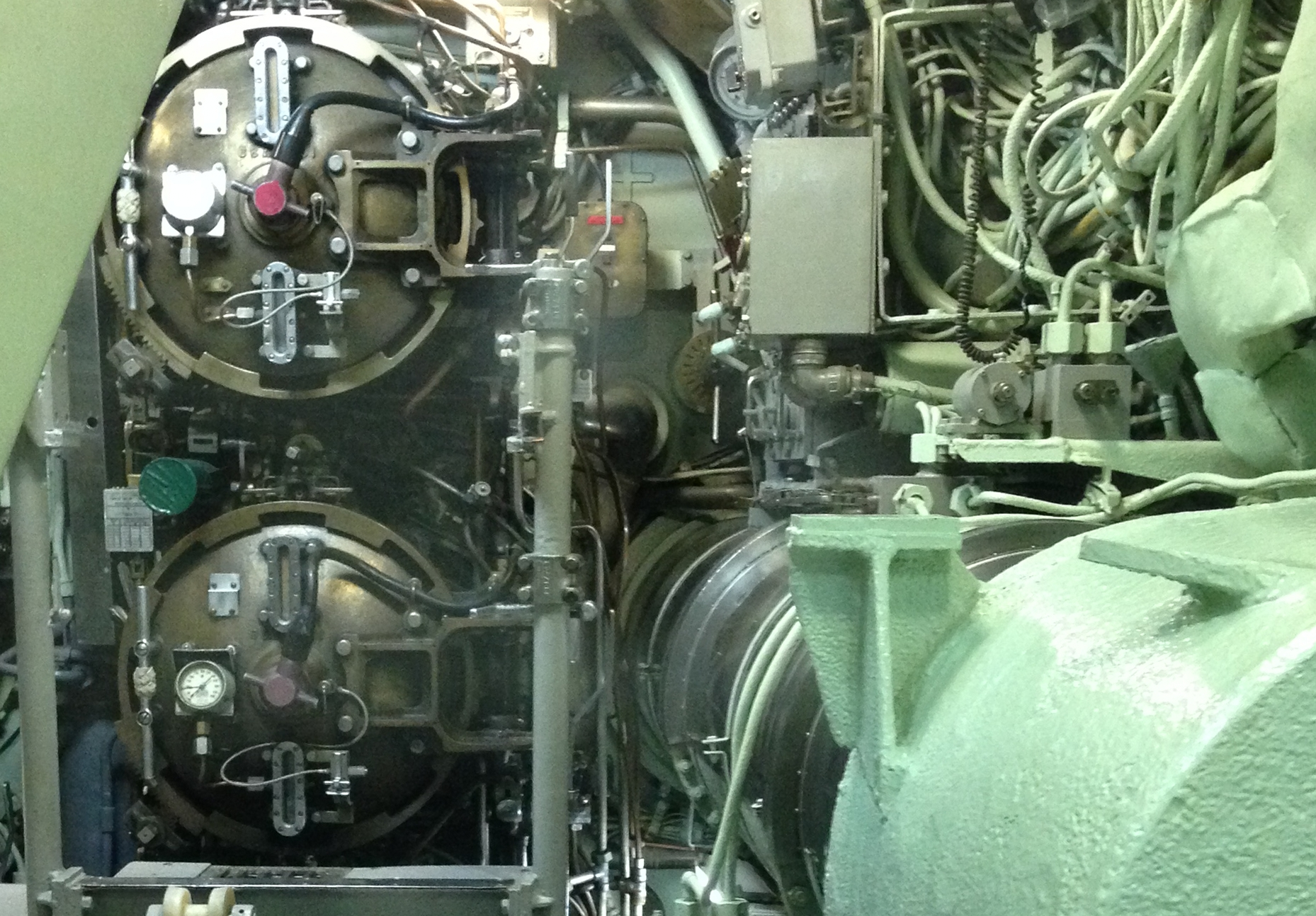 Torpedo tube breech doors of USS Nautilus in their close position.